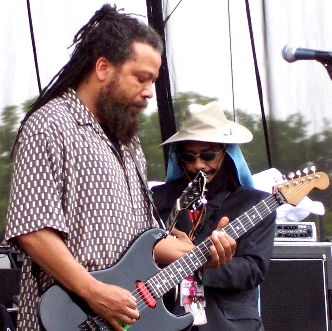 Bad Brains at Virgin Festival 2007